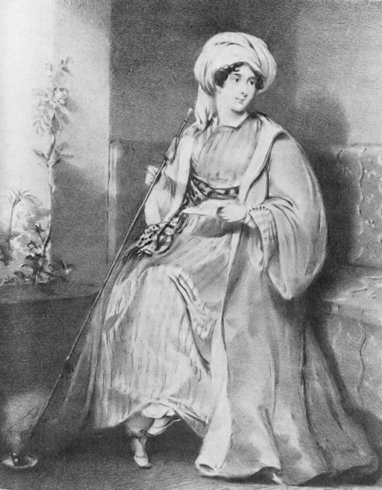 Hamerton: Lady Hester Stanhope